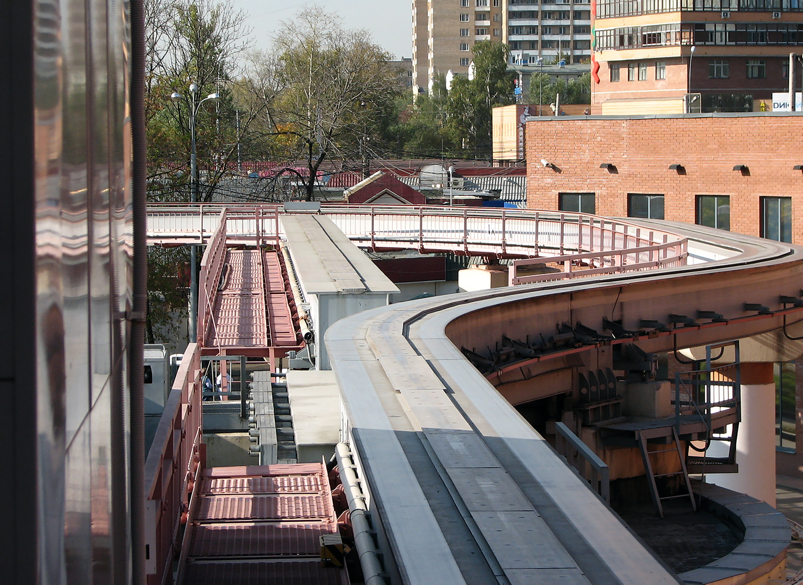 Station Timiryazevskaya of Moscow monorail transit system. The tracks.